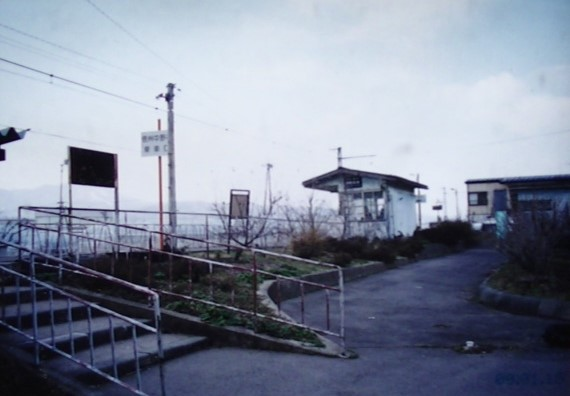 Naganodentetsu Nakanokita Station (2002 March)